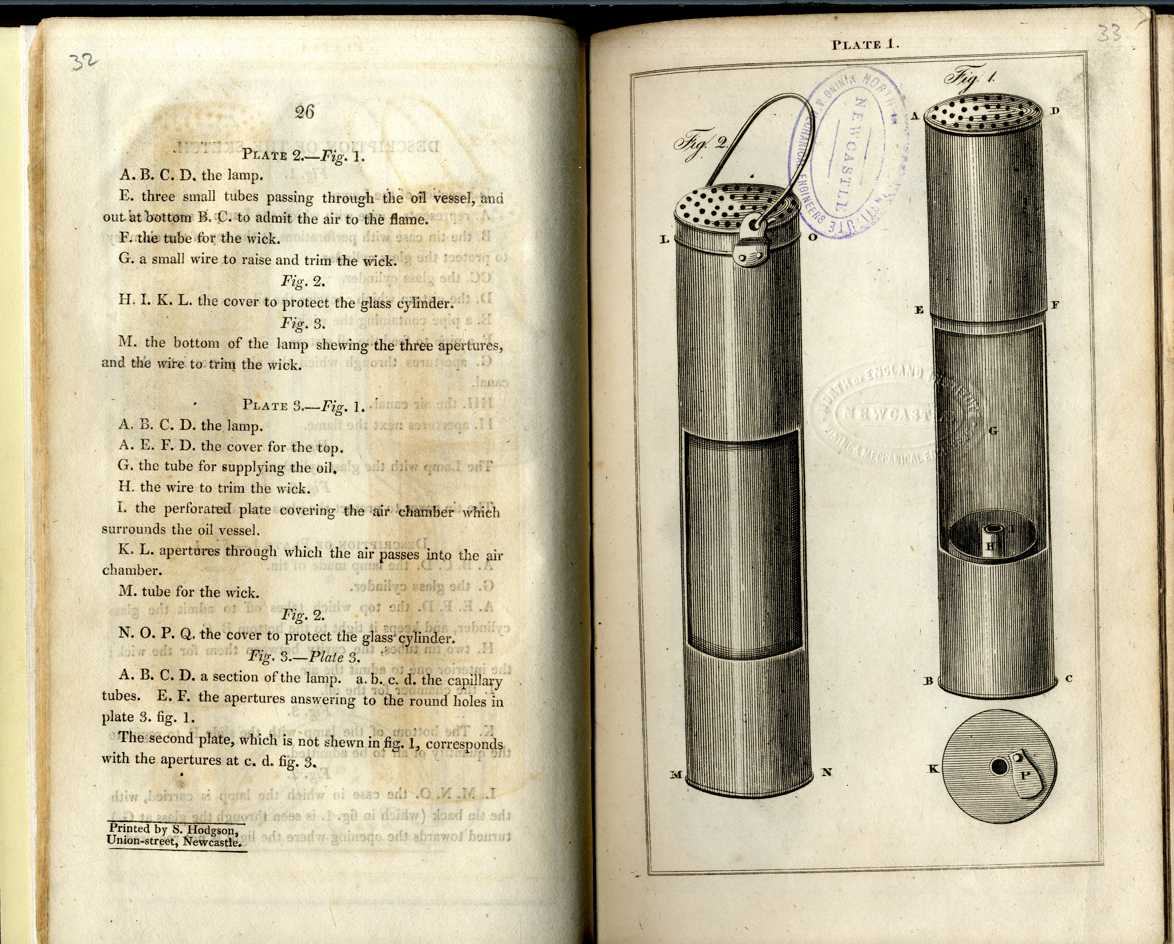 Plate 1 and descriptive text for this and plate 2 (also uploaded) from page 32-33 of Report Upon the Claims of Mr. George Stephenson, Relative to the Invention of His Safety Lamp, by the Committee Appointed at a Meeting Holden in Newcastle November 1st 1817, original tract held in the North of England Institute of Mining and Mechanical Engineers and uploaded with the authority of their librarian Jennifer Hillyard.